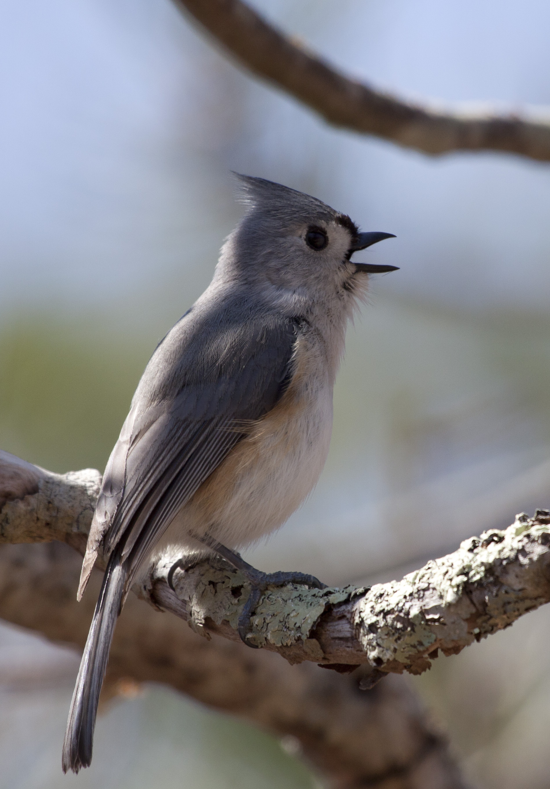 Adult Tufted Titmouse singing (Baeolophus bicolor)